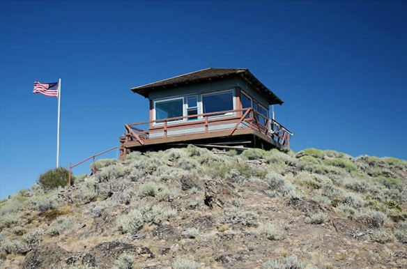 Hager Mountain lookout in the Fremont National Forest in south-central Oregon